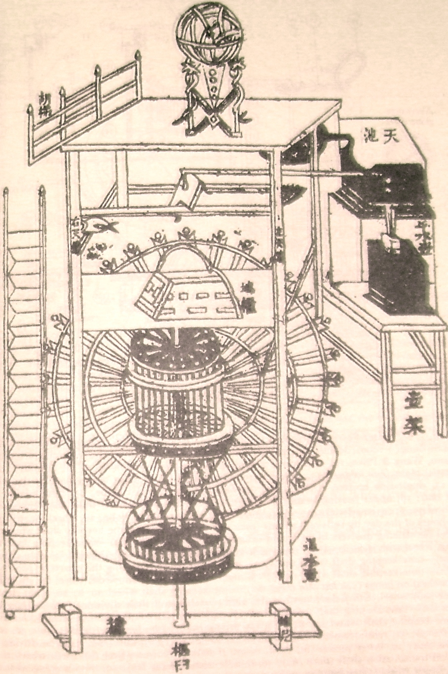 File:Clock_Tower_from_Su_Song's_Book.JPG with smear removed by mixing channels: Red: 0.2 green + blue Green: 0.4 green + 0.65 blue Blue: blue as red is badly smeared, green is slightly smeared but has least noise, and blue is not smeared but has most noise.